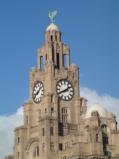 Liverbirds.